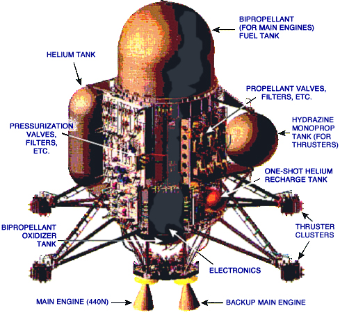 Propulsion System of Cassini